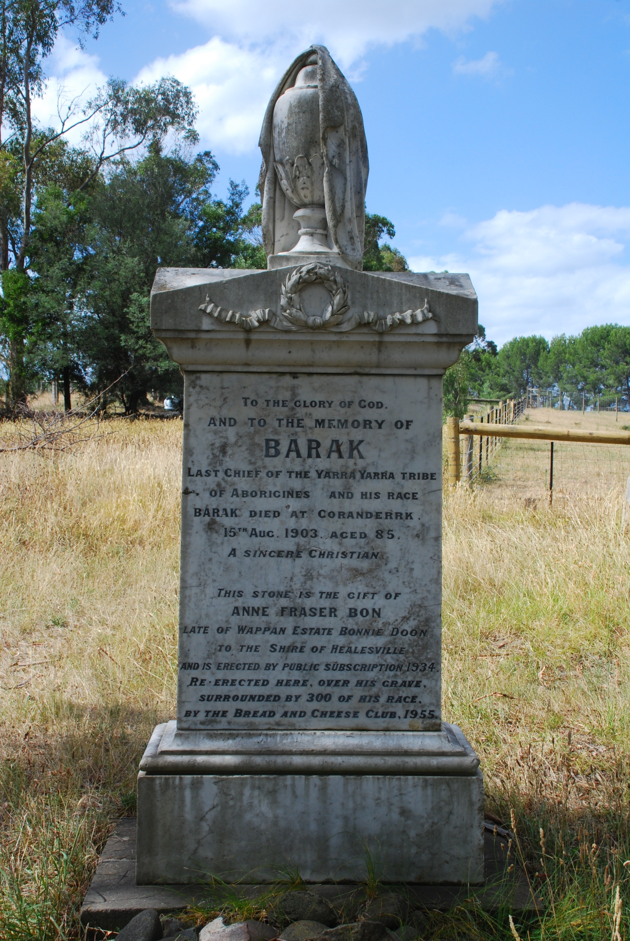 Barak's grave and headstone, located at Coranderrk cemetery, Yarra Valley, Victoria, Australia